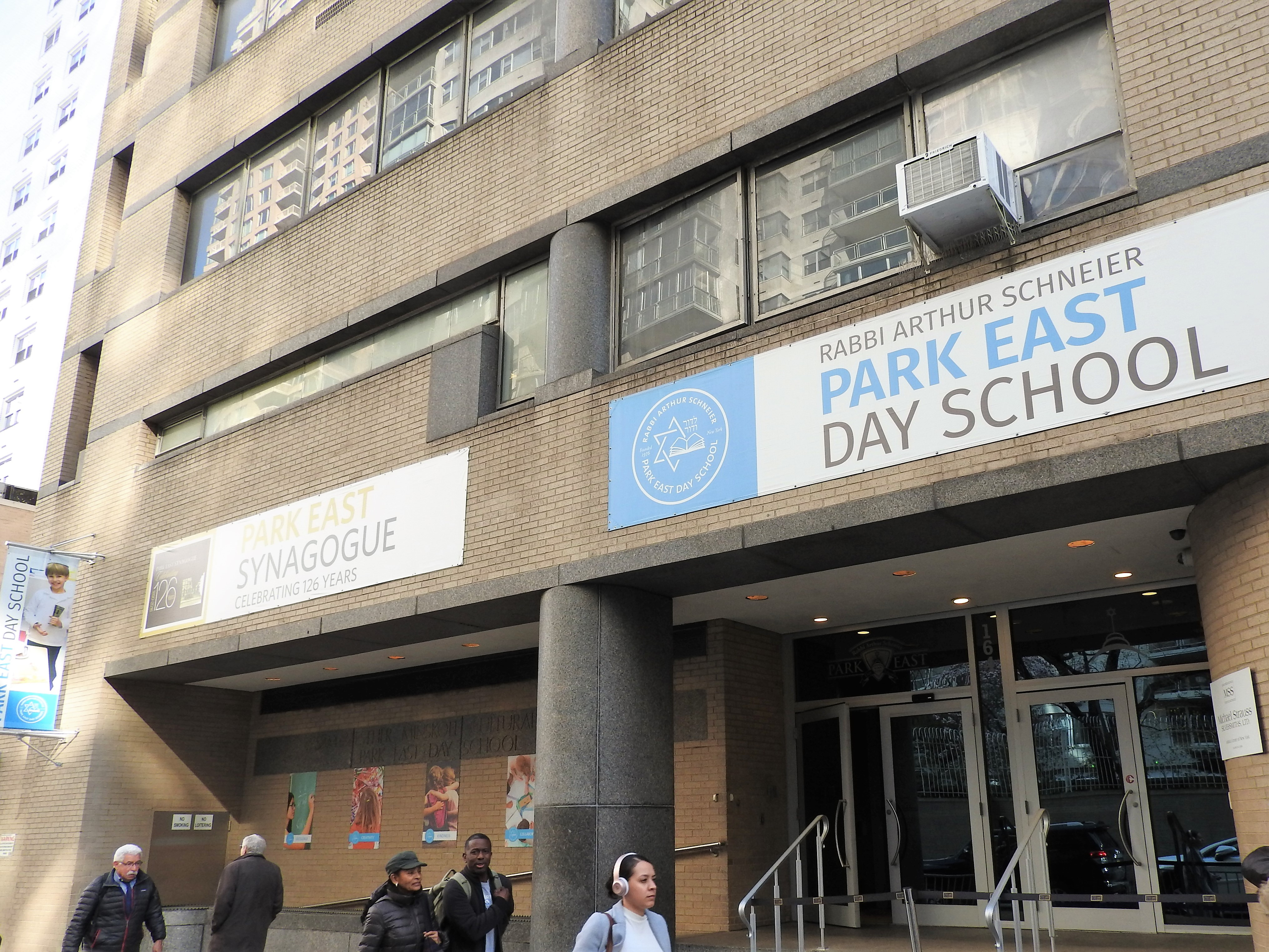 Looking south at school on a cloudy day